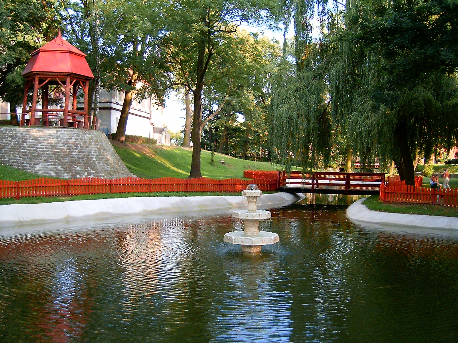 Historical Central Park in Szprotawa, Poland